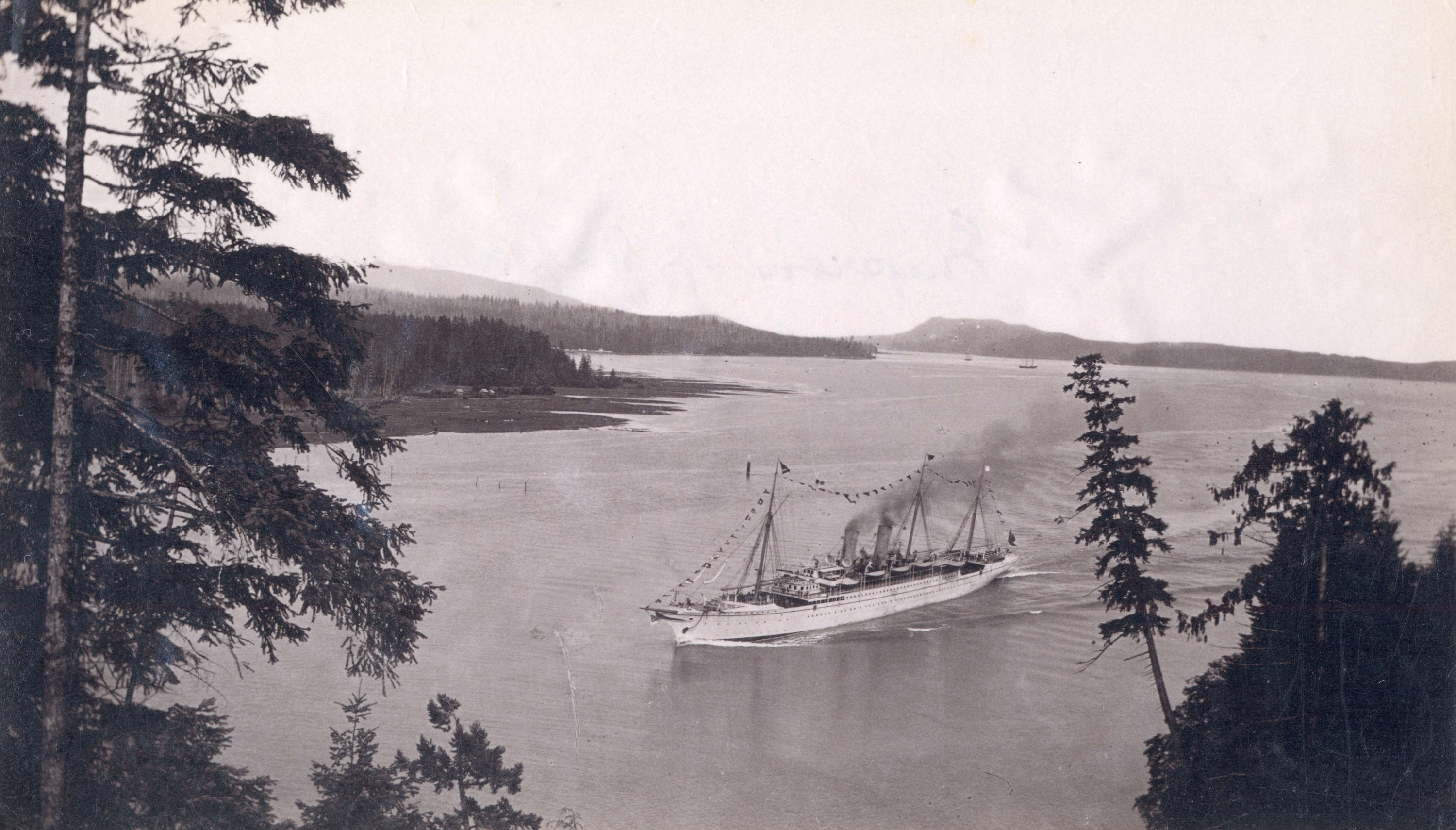 C.P.R. "Empress of Japan" passing through First Narrows, Vancouver harbour.